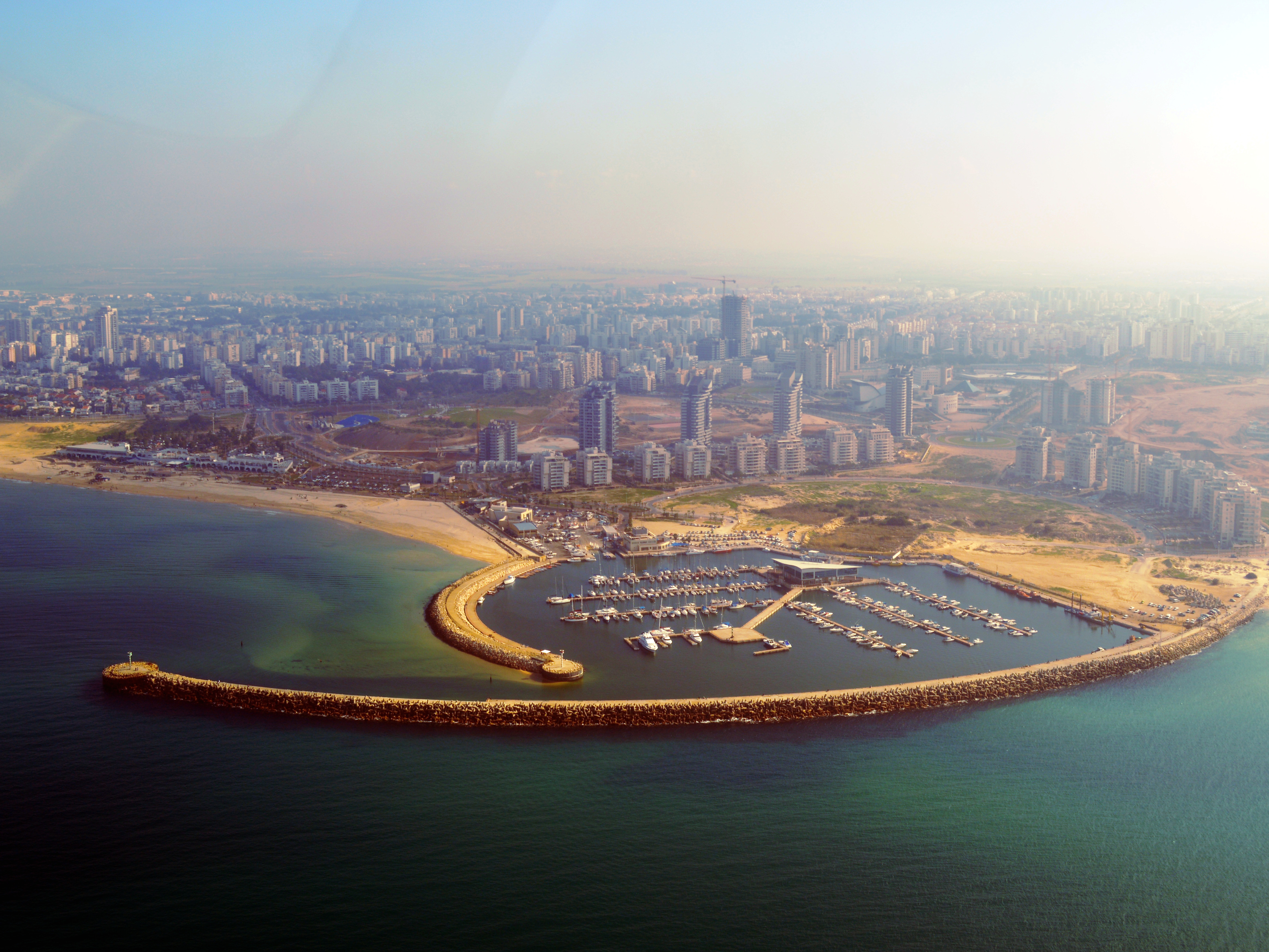 Ashdod Marina Aerial View